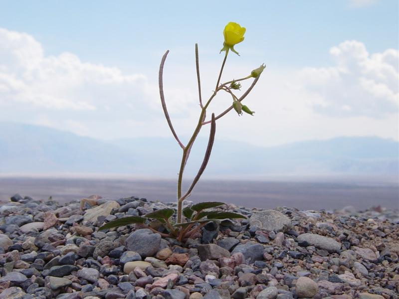 Photo I took at the mouth of Titus Canyon in Death Valley of a "yellow cup" aka "golden evening primrose" (Camissonia brevipes).